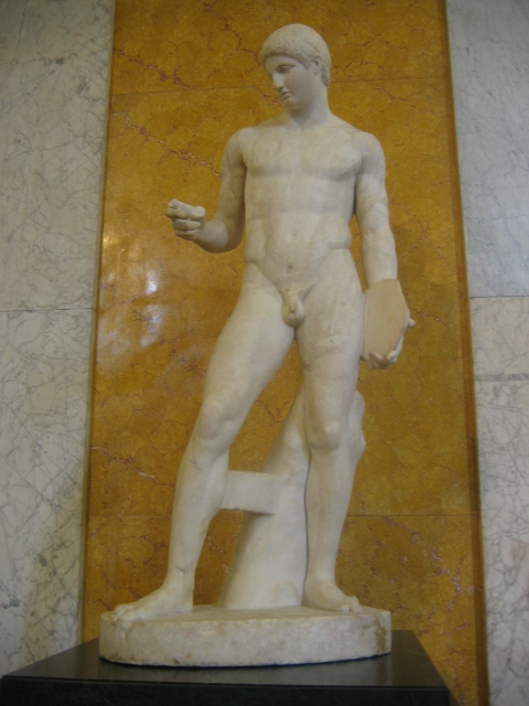 Discophoros (athlete holding a discus). Roman copy from the 2nd century AD after an early 4th century BC original sometimes assigned to the sculptor Naukydes. The head is restored after another version in the Vatican Museums.